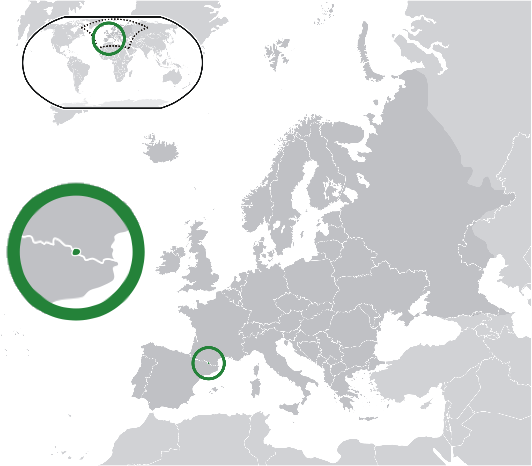 Andorra (dark green) / Europe (dark grey); inspired by and consistent with general country locator maps by User:Vardion, et al